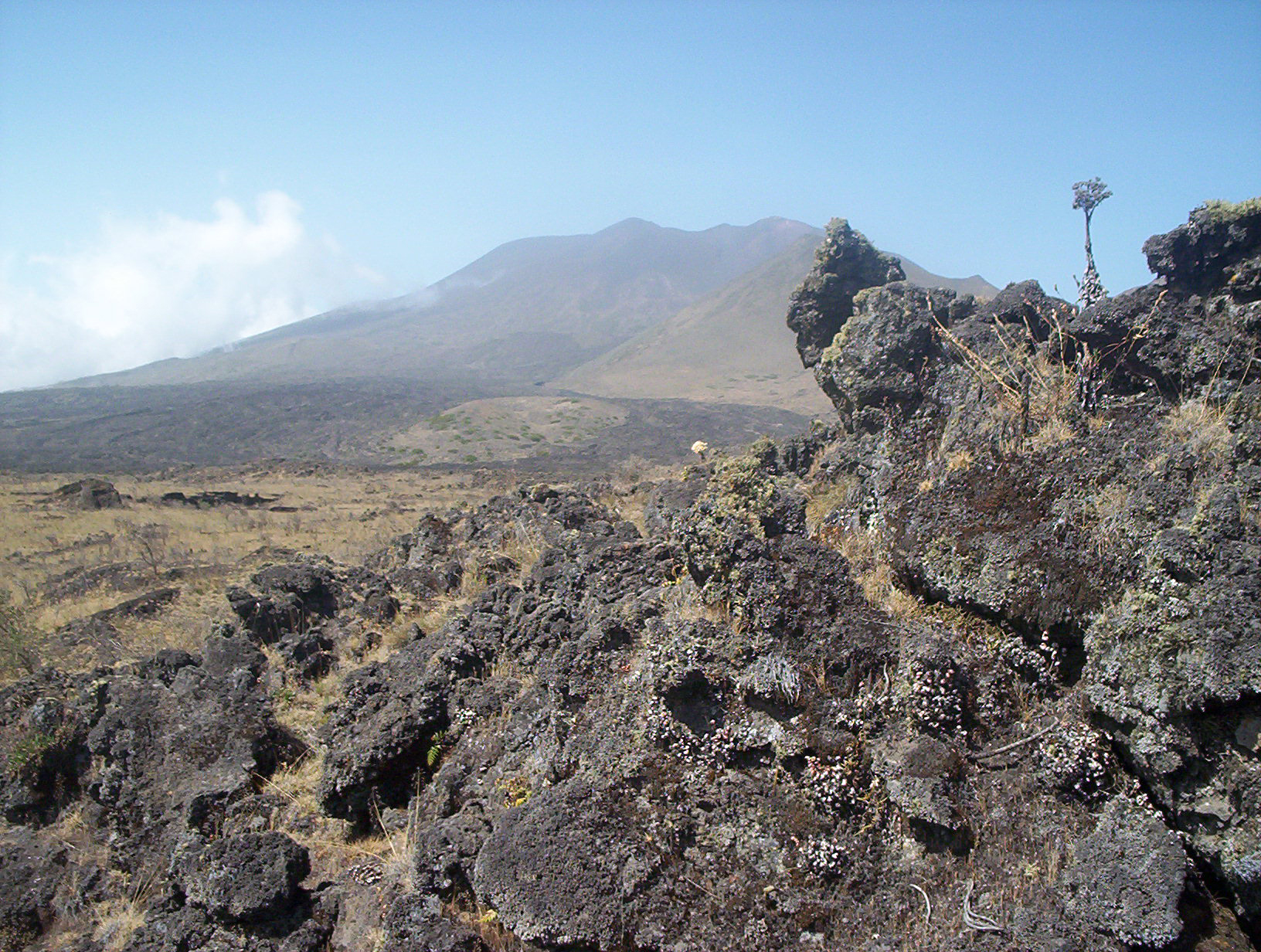 Old lava flows on Mount Cameroon